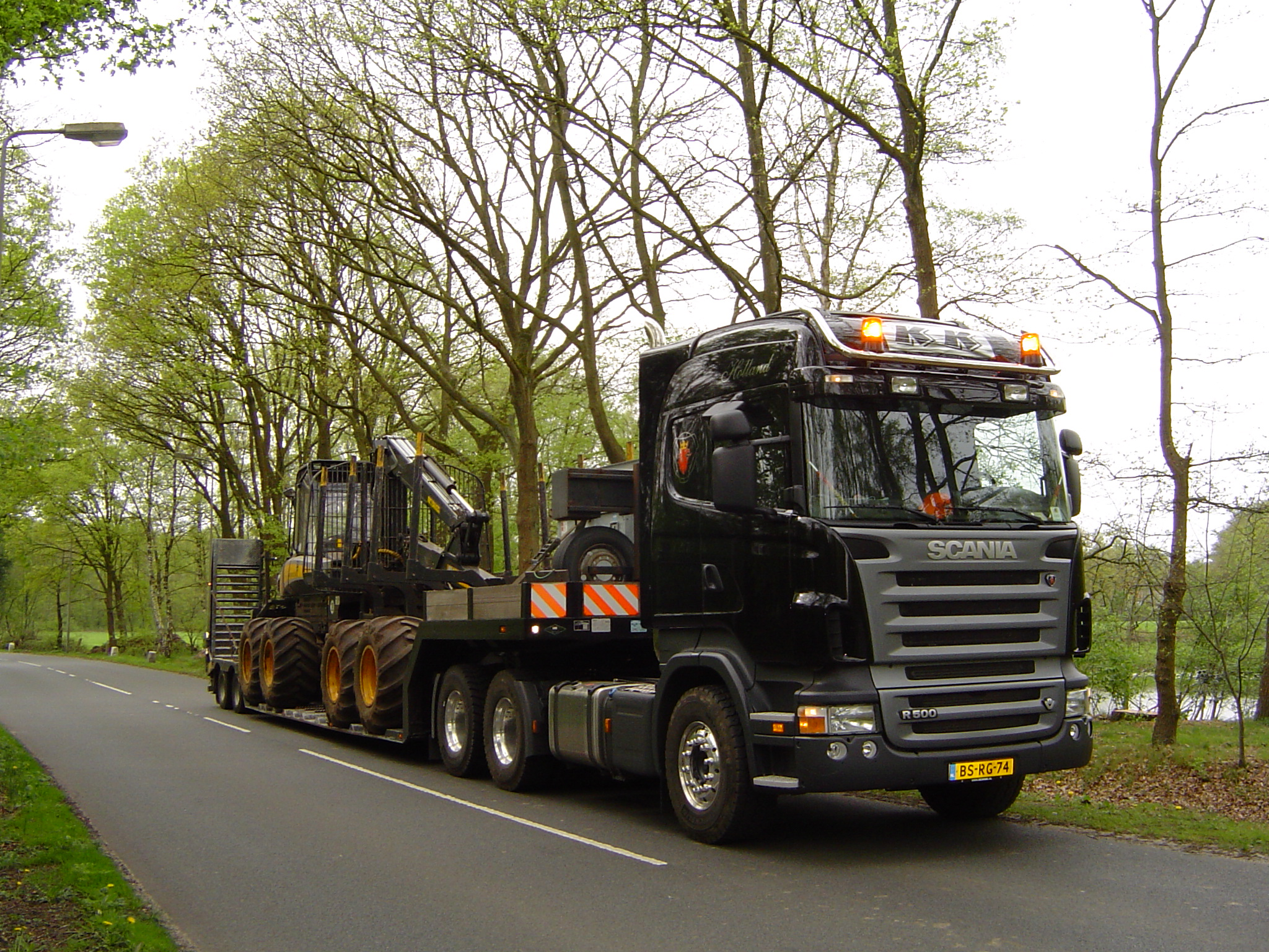 Scania R500 prime mover with low-loader semi-trailer